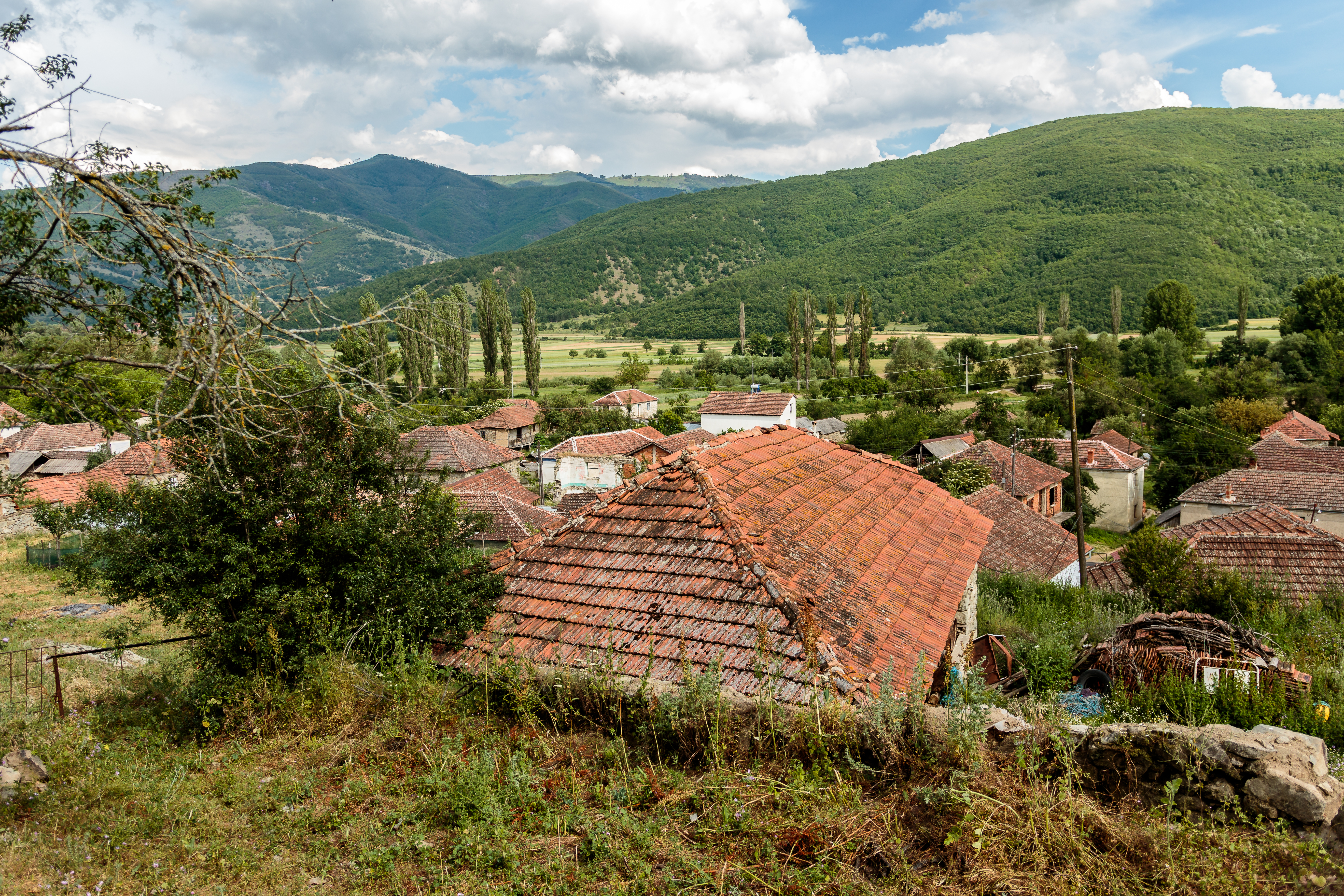 View of the village Graište